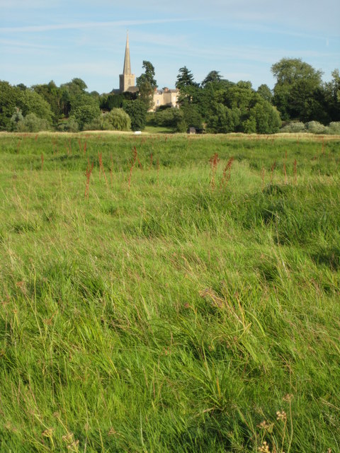 Twyning Meadow. View across Upham Meadow, known locally as Twyning Meadow, to Bredon Church on the other side of the River Avon. Normally this will have been cut for hay by this time of year, but like last year is late due to the inclement summer. This meadow regularly floods, see: 318662 which is a similar view but viewed from further back for obvious reasons.